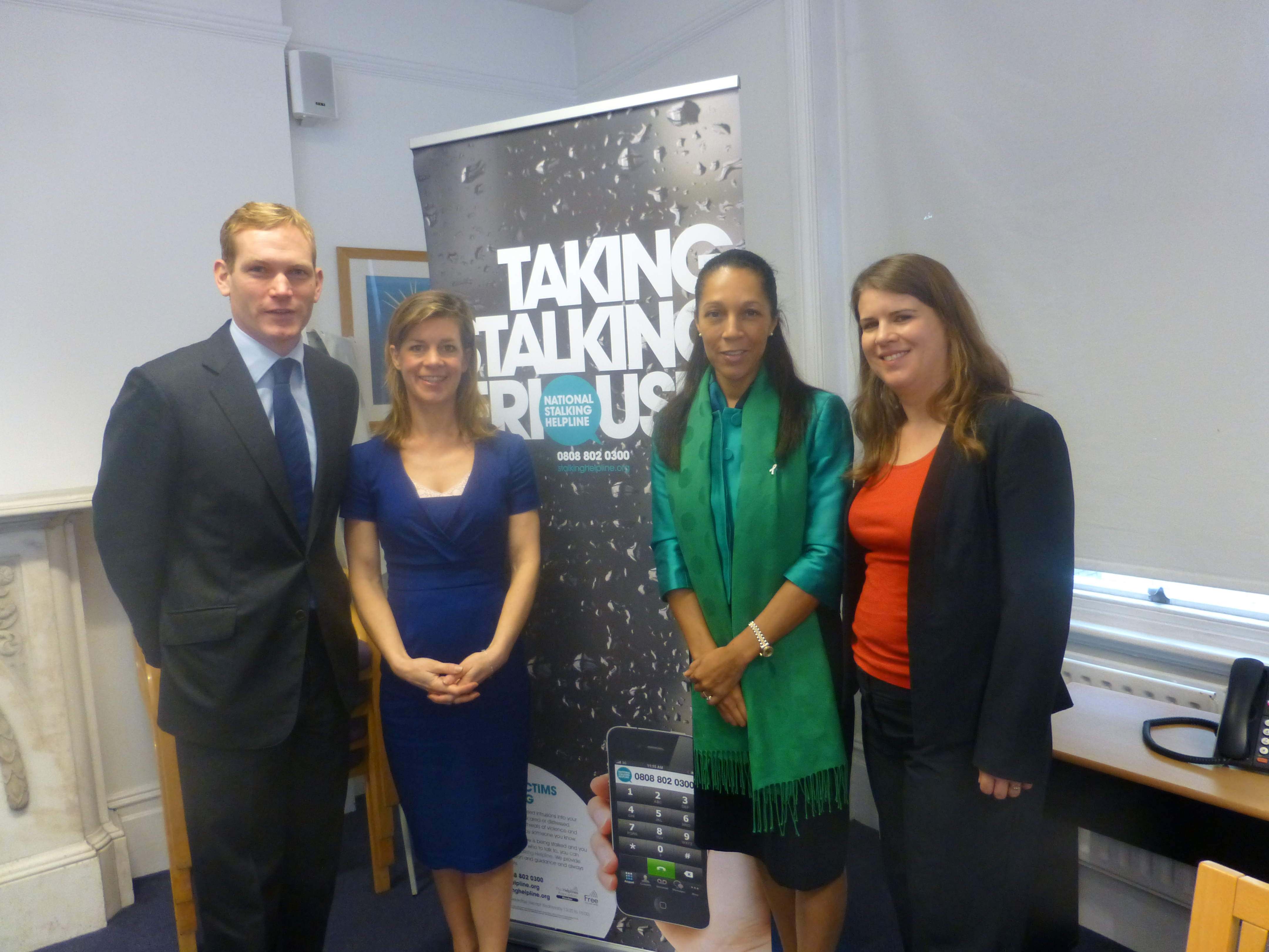 Minister for Crime Prevention Jeremy Browne teams up with Equalities Minister Helen Grant to meet stalking victims and experts at the Suzy Lamplugh Trust. Pictured L to R: Jeremy Browne MP, stalking victim Alexis Bowater, Helen Grant MP , Rachel Griffin Director of Suzy Lamplugh Trust. Find out more